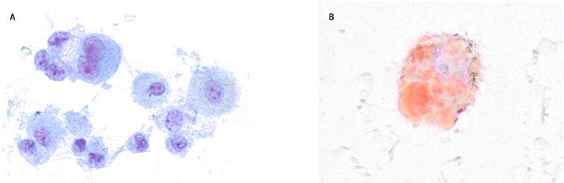 Microscopy of a bronchoalveolar lavage sample (Papanicolaou stain [A]* and oil red O stain [B]†) from a patient with acute lung injury associated with vaping — North Carolina, July–August 2019 Papanicolaou stain demonstrating alveolar macrophages laden with vacuoles. Oil red O stain showing lipid deposits staining red (400x magnification).